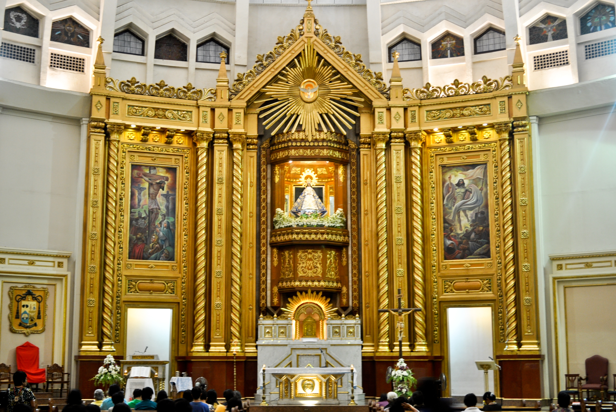 Our Lady of Peace and Good Voyage/Nuestra Se'ora de la Paz Y Buenviaje